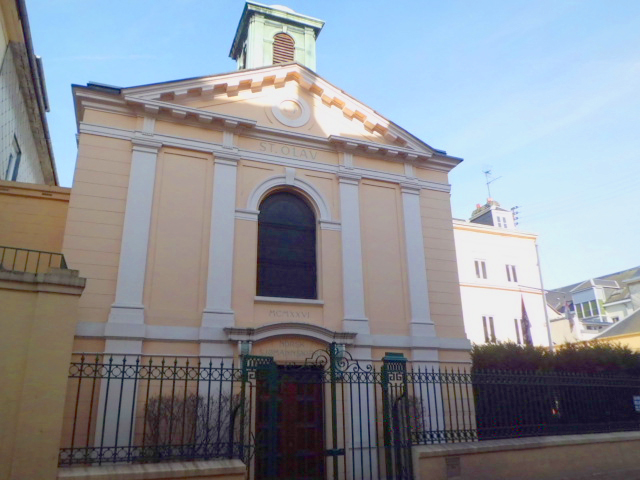 Saint Olav church at Rouen (Normandy)